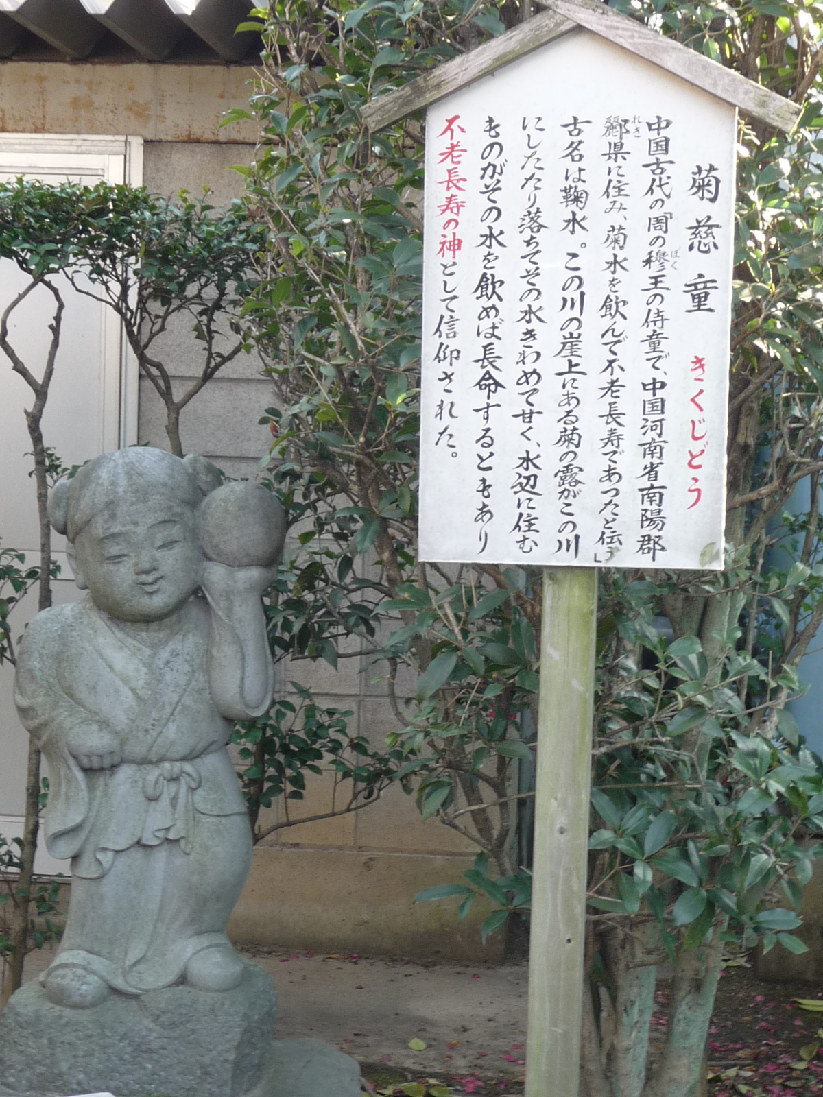 Statue of Kikujidou, at Sano City, Tochigi Japan